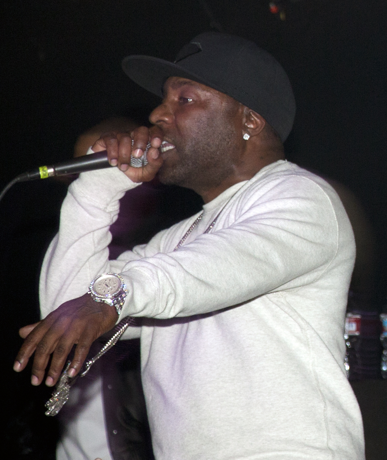 Talib & Strong Arm Steady